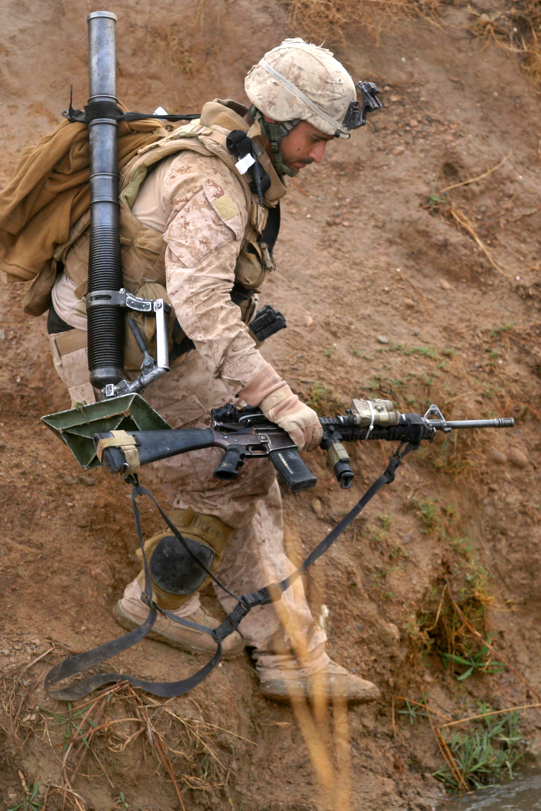 U.S. Marine Corps Lance Cpl. Chris Ducharme carefully crosses a stream while on a patrol in Marjah in Helmand province, Afghanistan, Feb. 22, 2010. Ducharme is assigned to India Company, 3rd Battalion, 6th Marine Regiment..